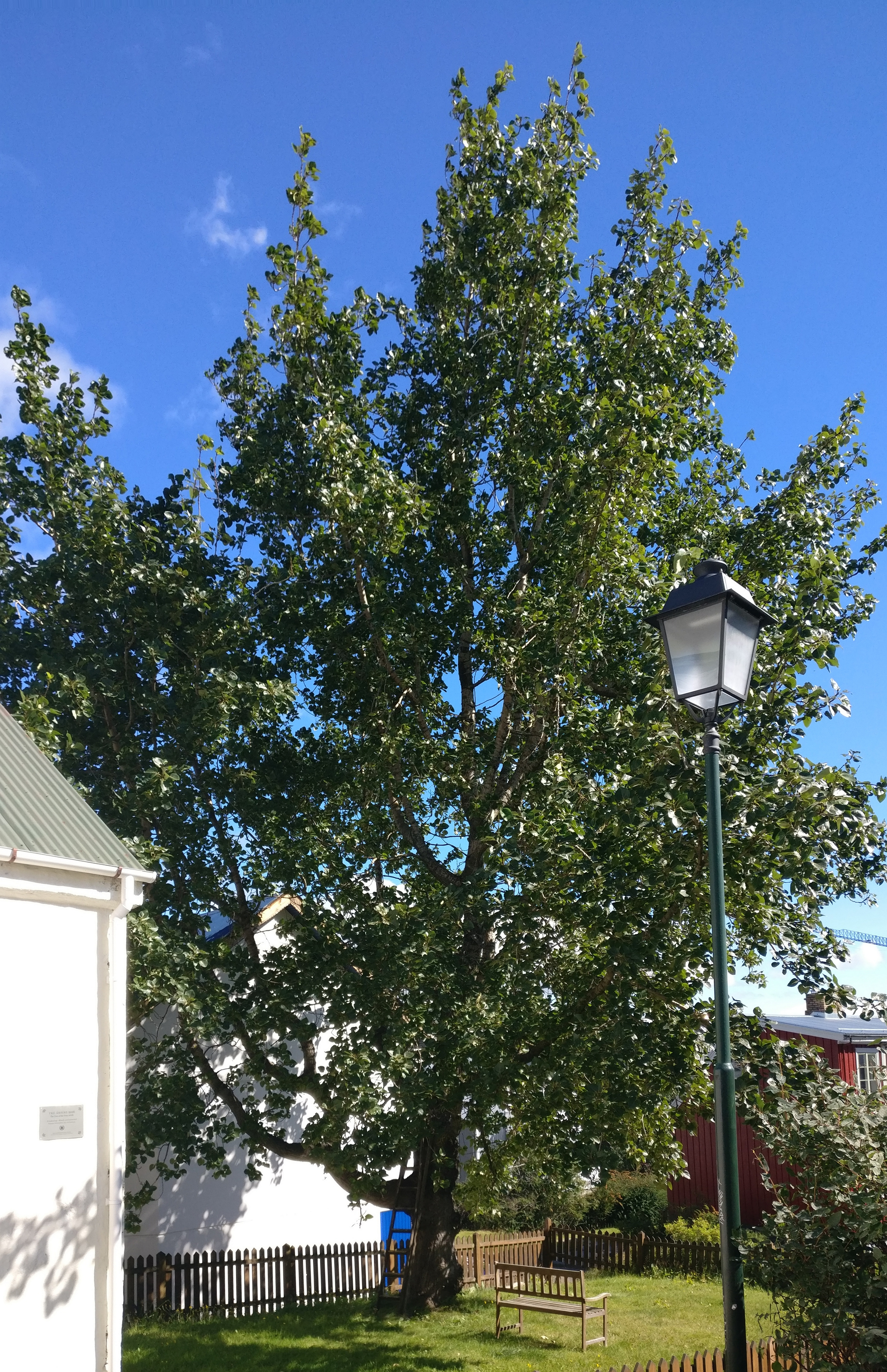 Corrected version.